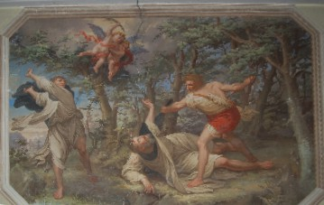 Affresco Baruffini